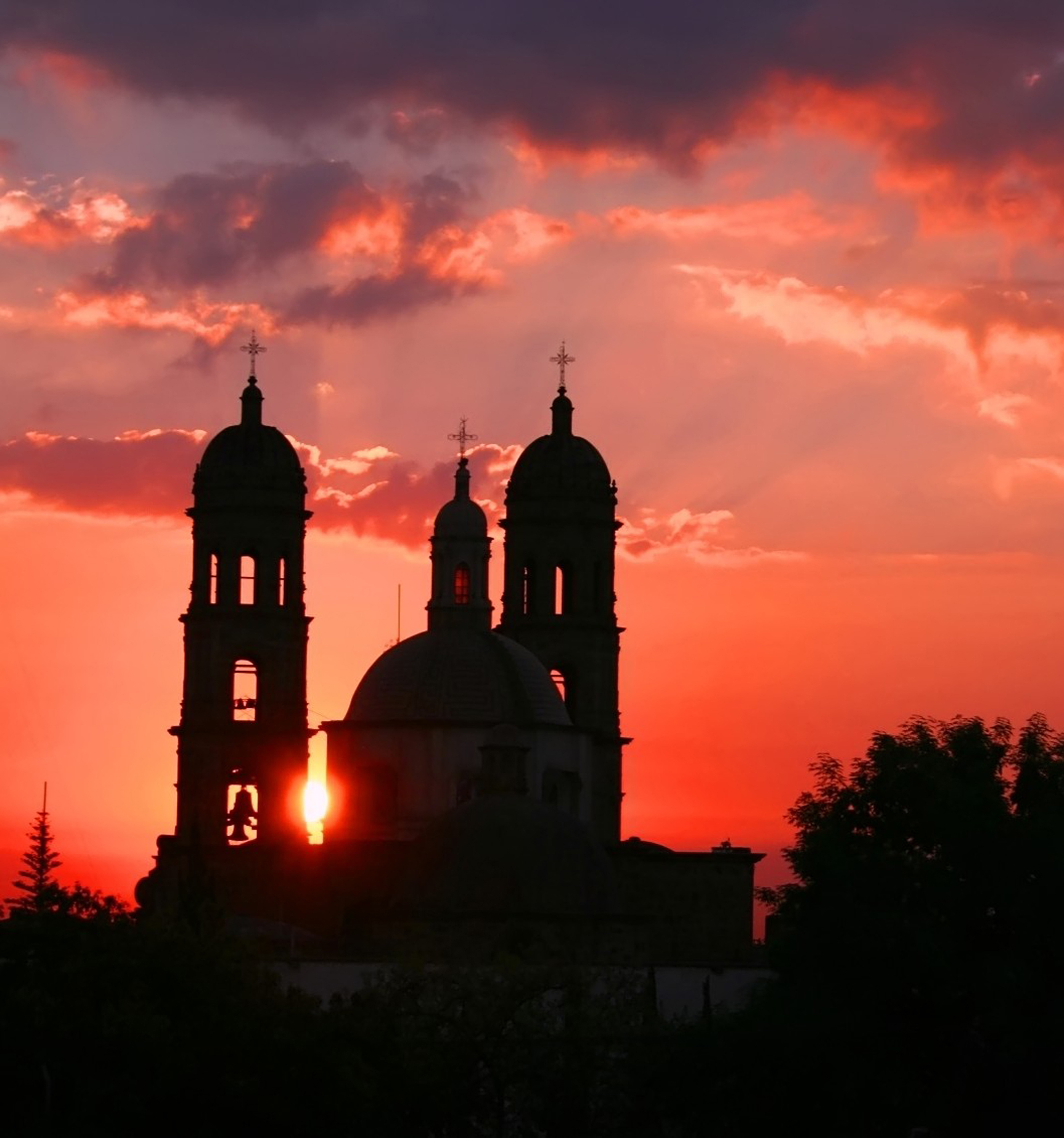 SUNSET AT CATHOLIC TEMPLE OF ZAPOPAN